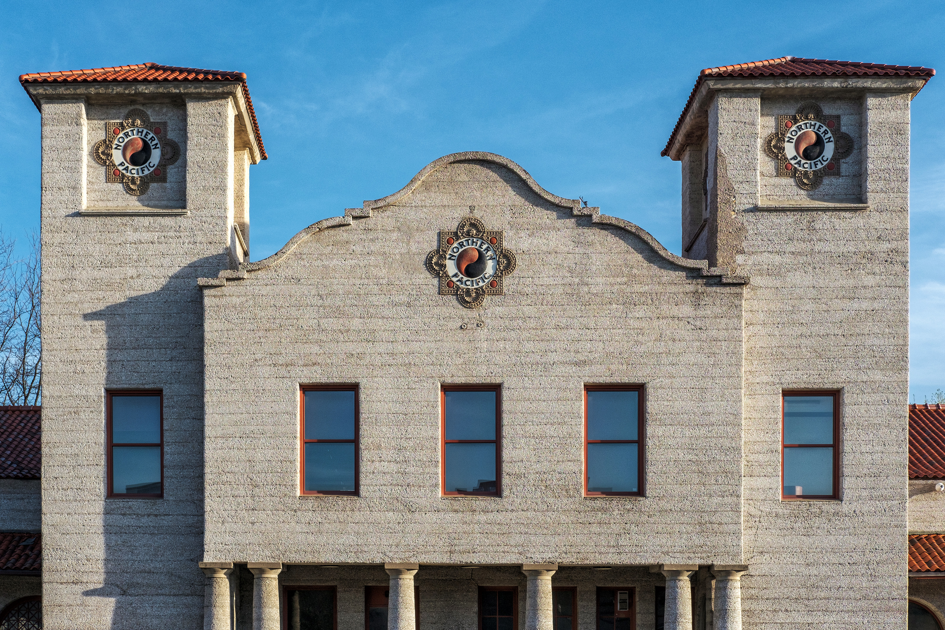 The old Northern Pacific Railway Depot, built in a Mission-Revival style in 1901 in downtown Bismarck, North Dakota, USA. The building now houses a Mexican restaurant.("Bismarck Historical Society".)